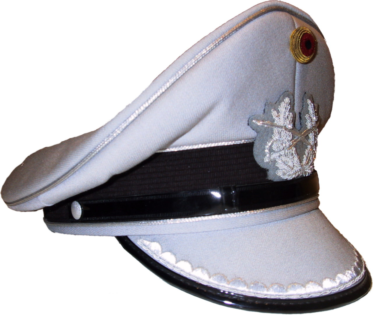 Peaked cap for junior commisioned officers of the German Army (Bundeswehr)